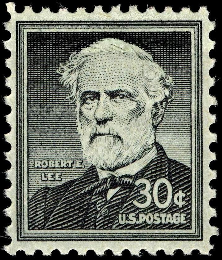 Image of US Postage stamp depicting Robert E. Lee